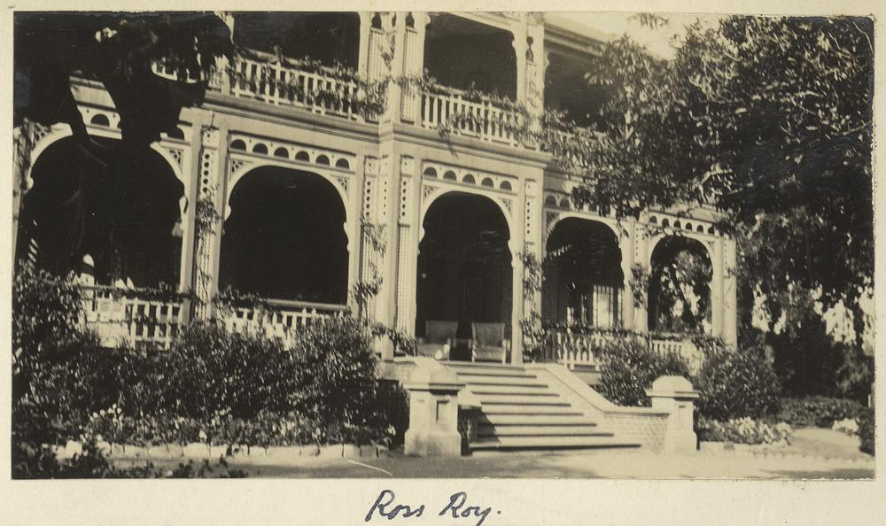 Indooroopilly residence, Ross Roy, ca. 1929 Ross Roy later became part of the St. Peter's Lutheran College when the school opened in the 1940s.